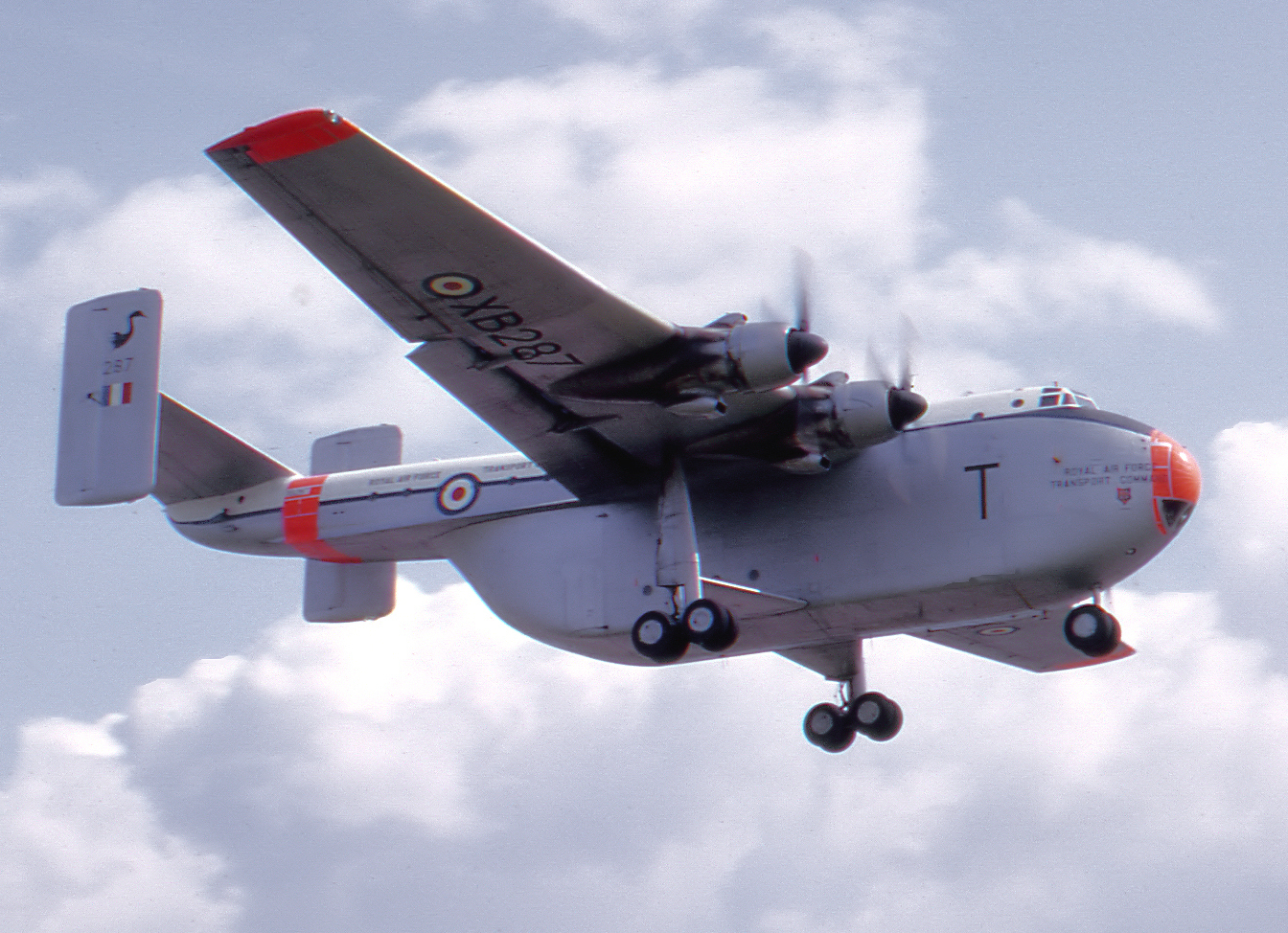 Blackburn Beverley (XB287) in 1964, location unknown. Photographed by Adrian Pingstone and released to the public domain.